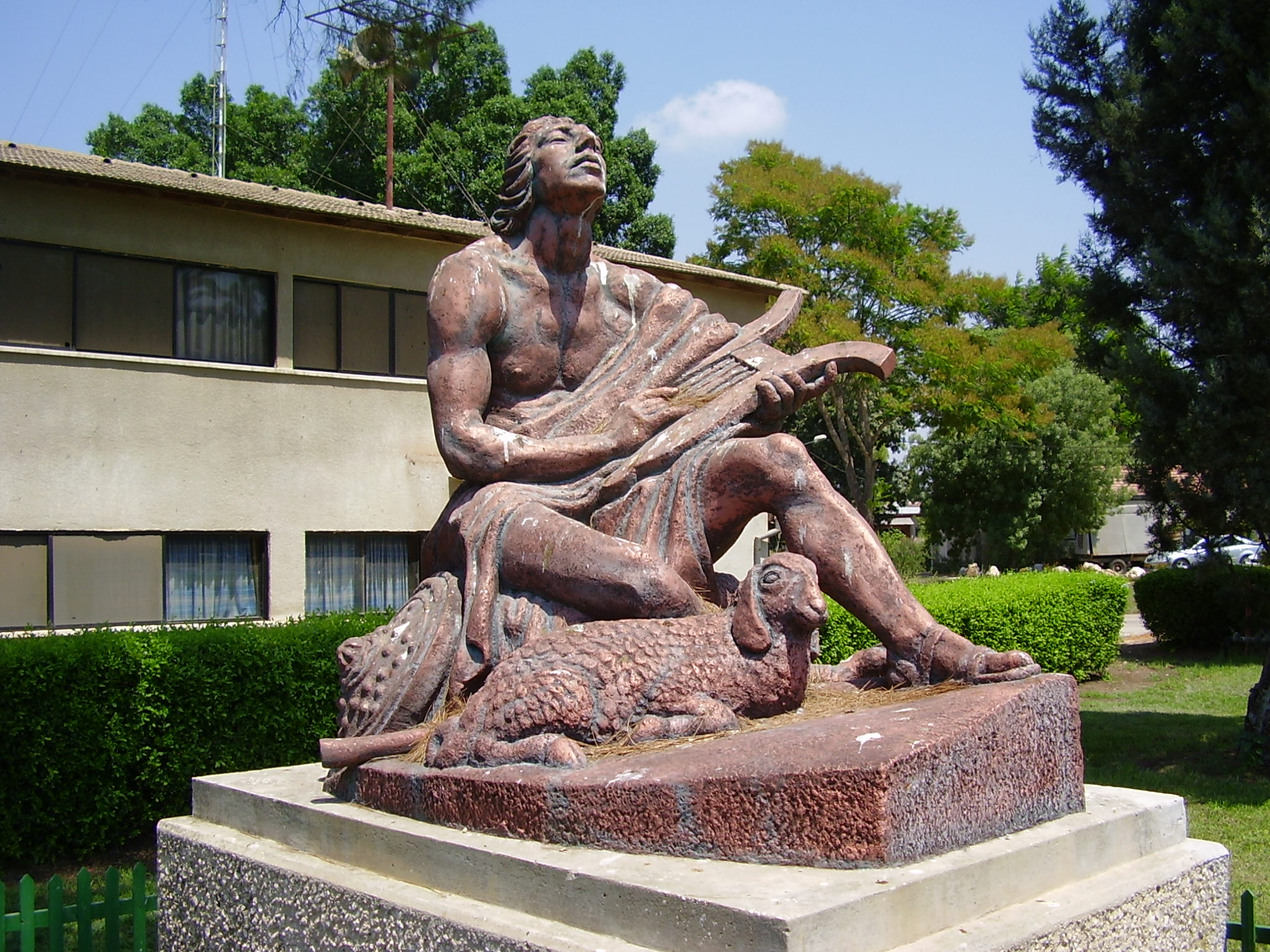 shepherd david playing the harp , by the sculptor David Polus, in kibbuz Ramat - David, Israel (1935). (1935)פסל "דוד הרועה מנגן בנבל" של הפסל דוד פולוס, בקיבוץ רמת דוד